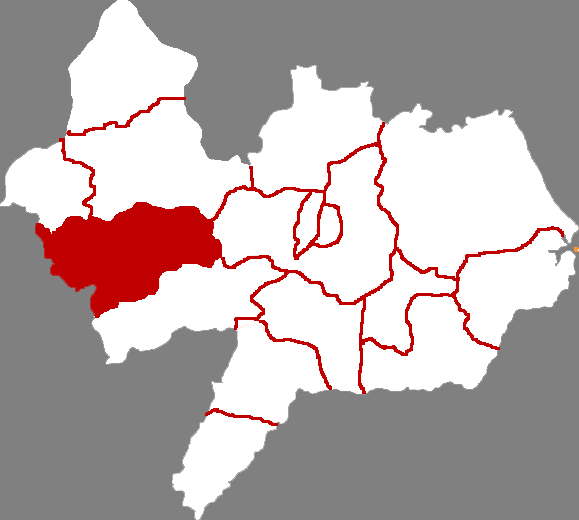 Location of Xian county in Cangzhou City, China